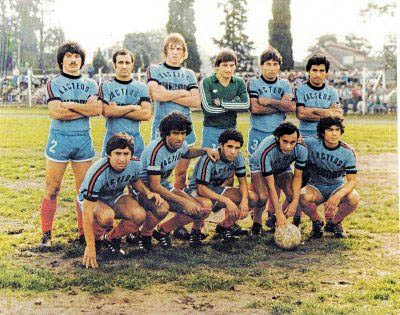 Team of C.A. Brown (Adrogué), Primera D champion.